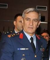 Air Commodore (Rtd) Kaiser Tufail receiving a memento from Commander of the Turkish Air Force General Akin Ozturk at the 'International Symposium on the History of Air Warfare' held at the Turkish Air War College, Istanbul.